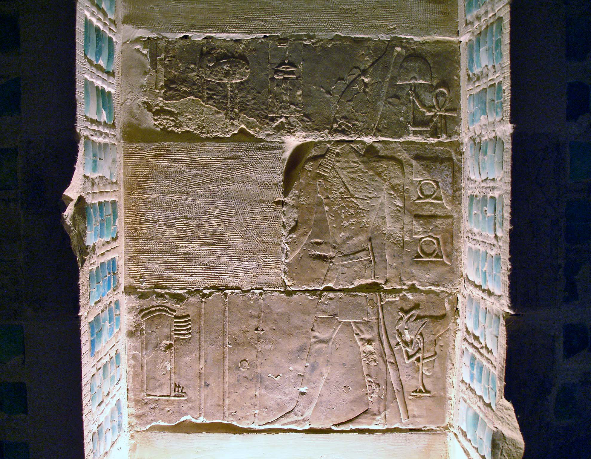 Niche with panel showing the king Netjerykhet (Djoser) walking towards the shrine of Horus of Behedet (modern Edfu). From Saqqara, Djoser pyramid complex, blue underground chambers, reproduction now in the Imhotep Museum. In this scene, set geographically in Upper Egypt, we see the Djoser doing what is probably one of the first acts of his Jubilee feast (hed seb). The king, wearing the white crown walks to a famous temple of Upper Egypt, quoted in vertical text on the left. It is the temple of Horus of Behedet, where was worshipped a form of Horus protector of the throne of Egypt.